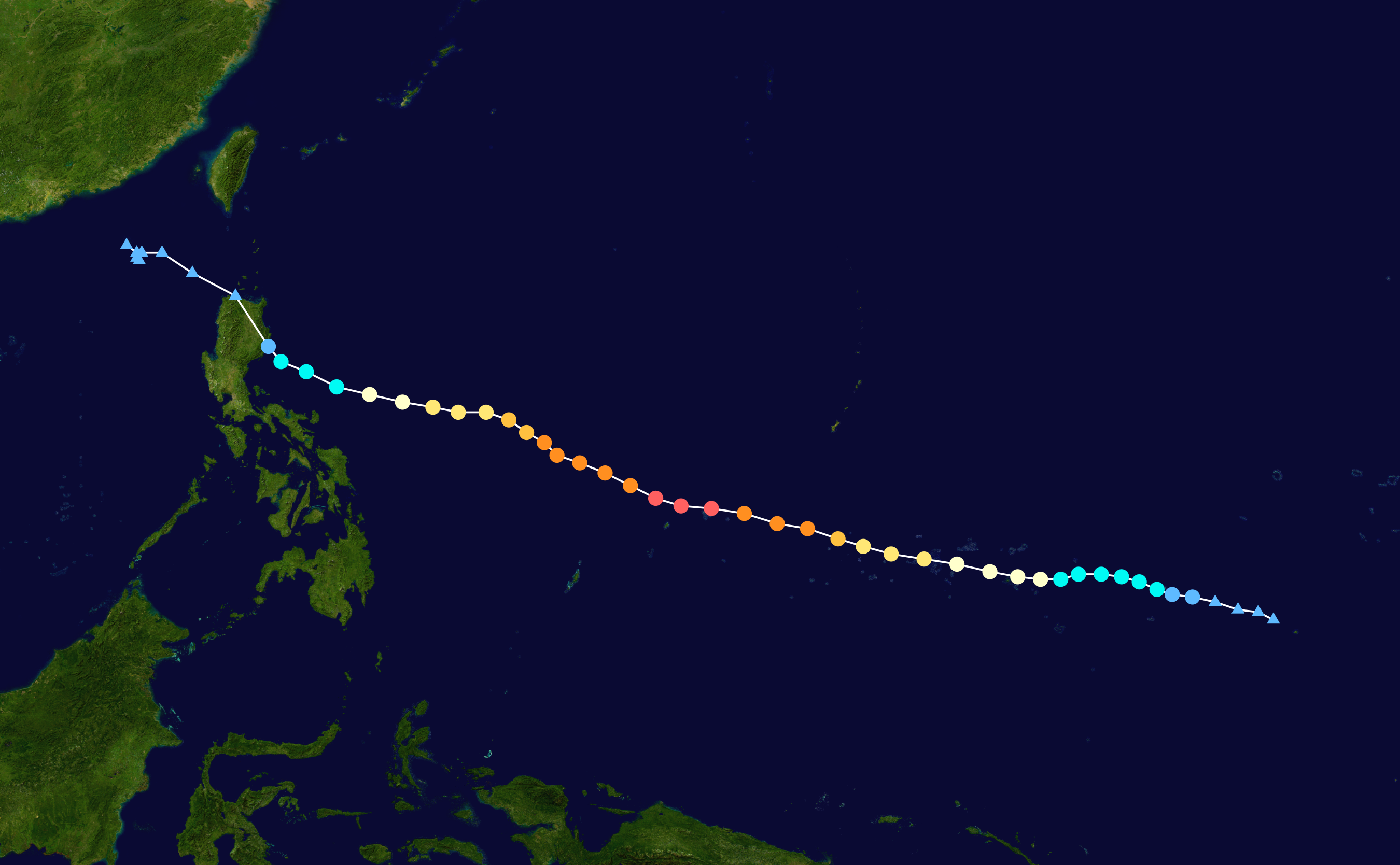 Track map of Typhoon Maysak of the 2015 Pacific typhoon season. The points show the location of the storm at 6-hour intervals. The colour represents the storm's maximum sustained wind speeds as classified in the Saffir–Simpson scale (see below), and the shape of the data points represent the nature of the storm, according to the legend below. Saffir–Simpson scale Tropical depression≤38 mph≤62 km/h Category 3111–129 mph178–208 km/h Tropical storm39–73 mph63–118 km/h Category 4130–156 mph209–251 km/h Category 174–95 mph119–153 km/h Category 5≥157 mph≥252 km/h Category 296–110 mph154–177 km/h Unknown Storm type Tropical cyclone Subtropical cyclone Extratropical cyclone / Remnant low / Tropical disturbance / Monsoon depression